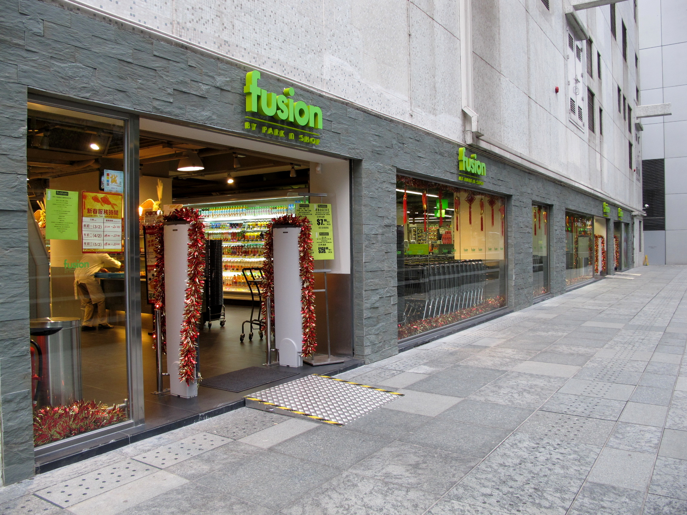 Fusion supermarket in Quarry Bay